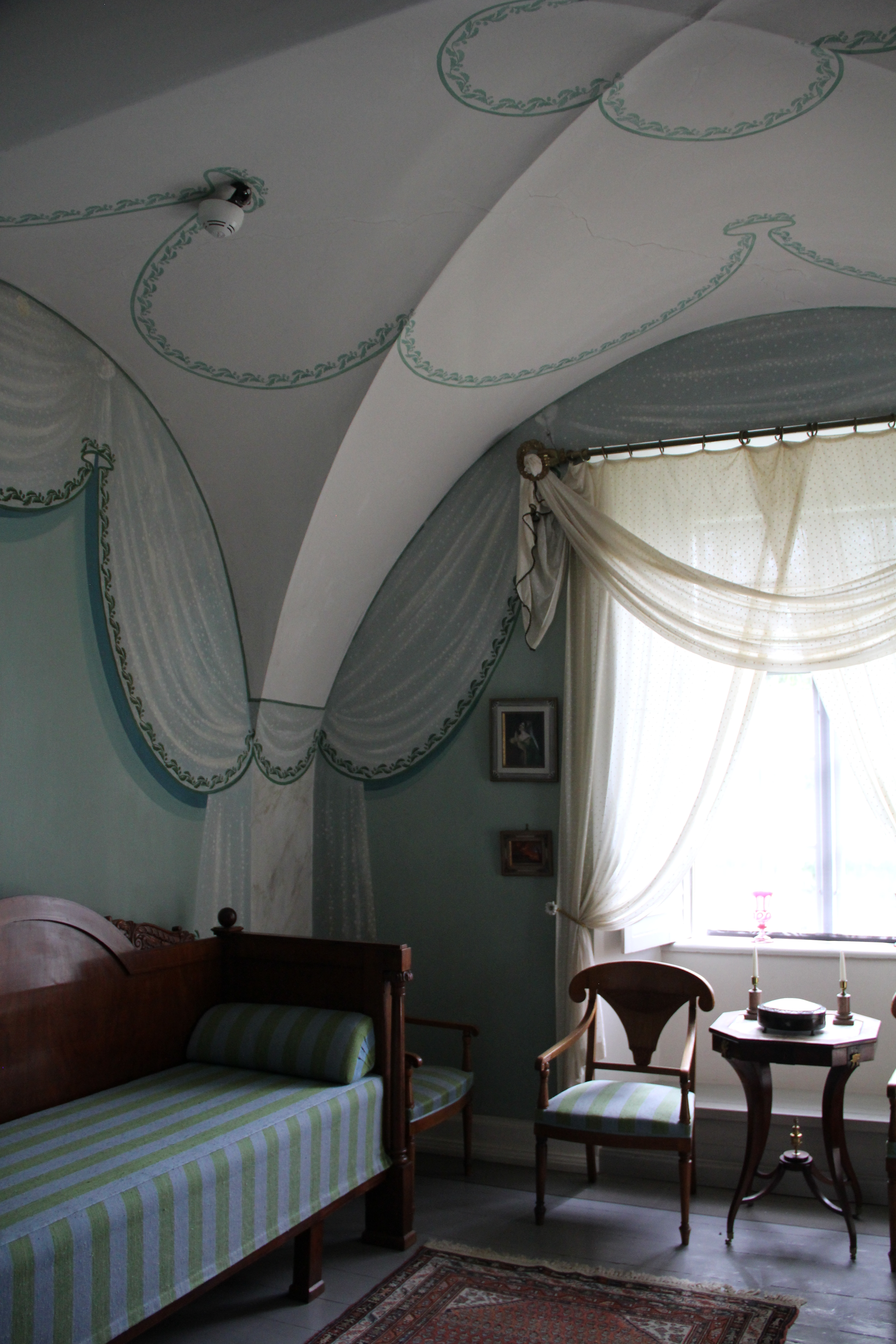 Louhisaari manor, Askainen, Masku, Finland. - "Grandmothers bedroom" was used by Ewa Wilhelmina Mannerheim (née von Schantz, 1810-1895) during last decades of her life. In the 1830s room was used by her mother-in-law Wendla Sophie Mannerheim (née von Willebrand, 1779-1863).